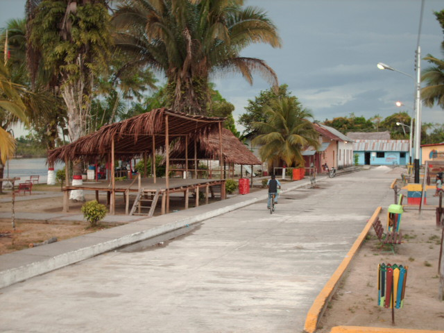 I took this picture during a visit to Maroa, as part of my work for a venezuelan bank.